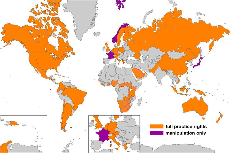 World map of international practice rights of U.S. trained D.O.s Practice rights generally recognized as equal to U.S.-M.D.s Unlimited practice rights granted, but difficult to obtain Limited to manipulation-only Unknown or previously denied